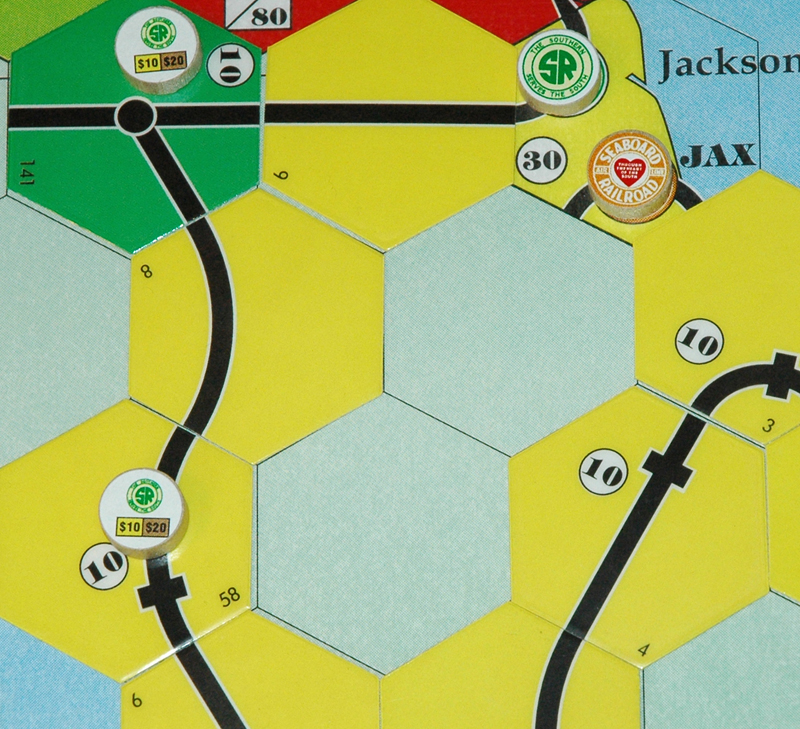 Close-up of the board (in play) for the board game 18FL